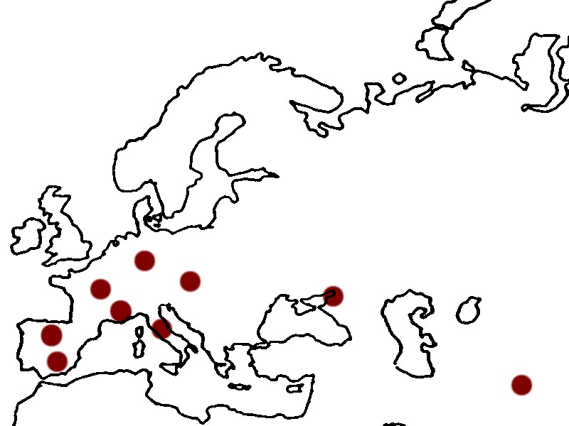 Localisation des fouilles ou été découvert des fossiles d'Acinonyx pardinensis.